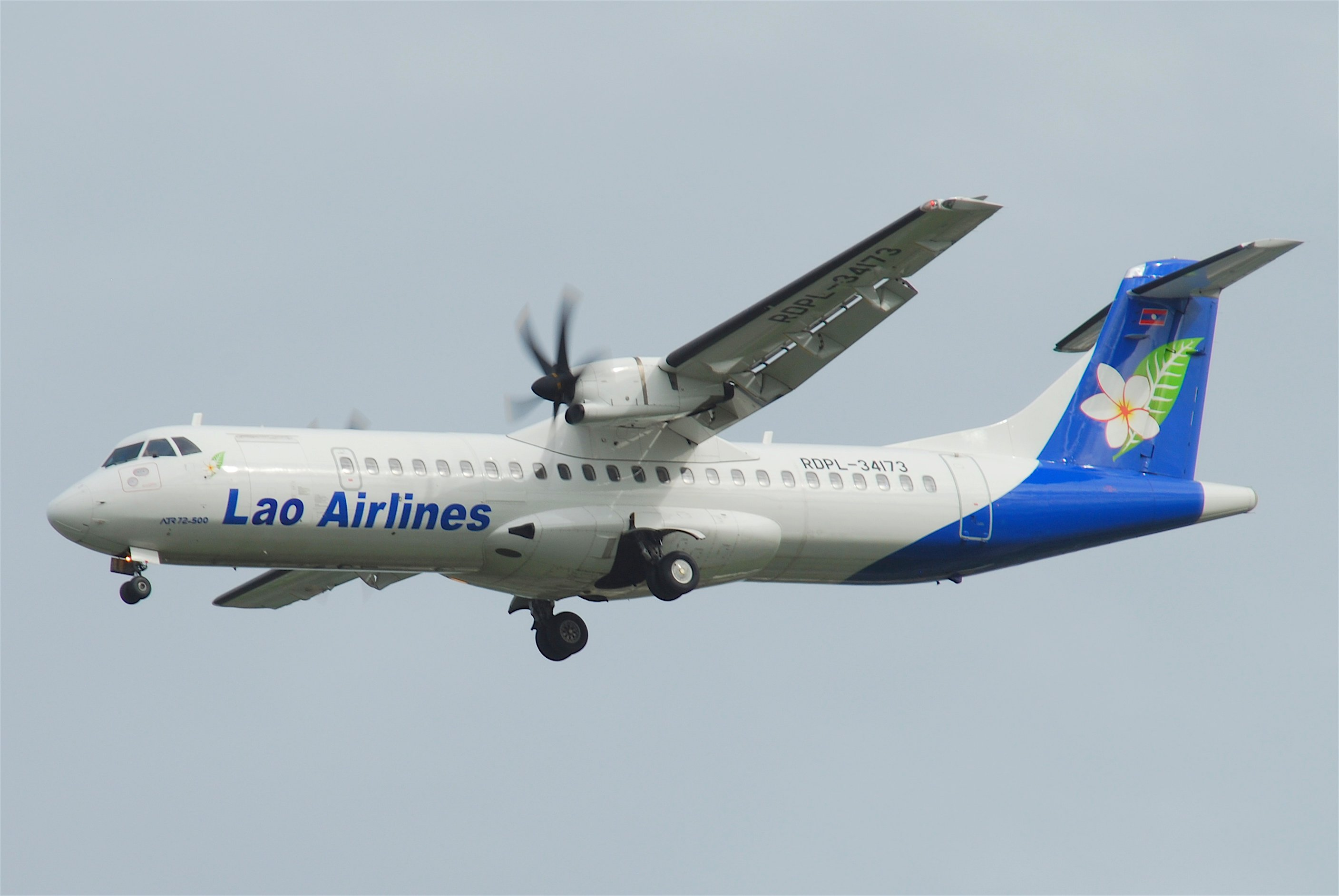 Lao Airlines ATR 72-212A; RDPL-34173@BKK;30.07.2011/613br